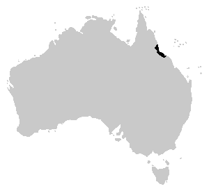 Distribution of the Northern Barred Frog (Mixophyes schevilli) User:Froggydarb/GFDL-self